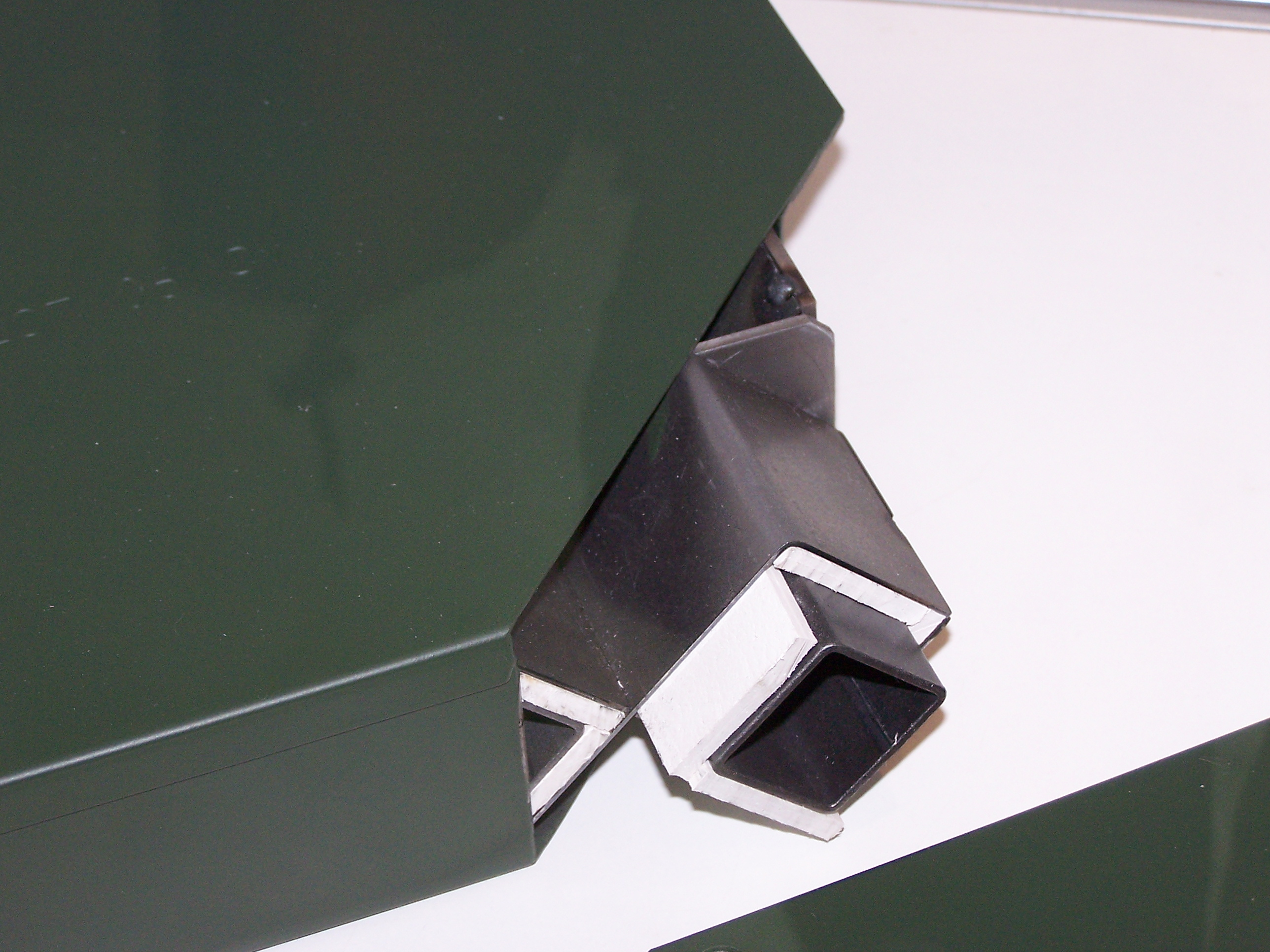 "DYNA" explosive reactive armor for T-72 MBT